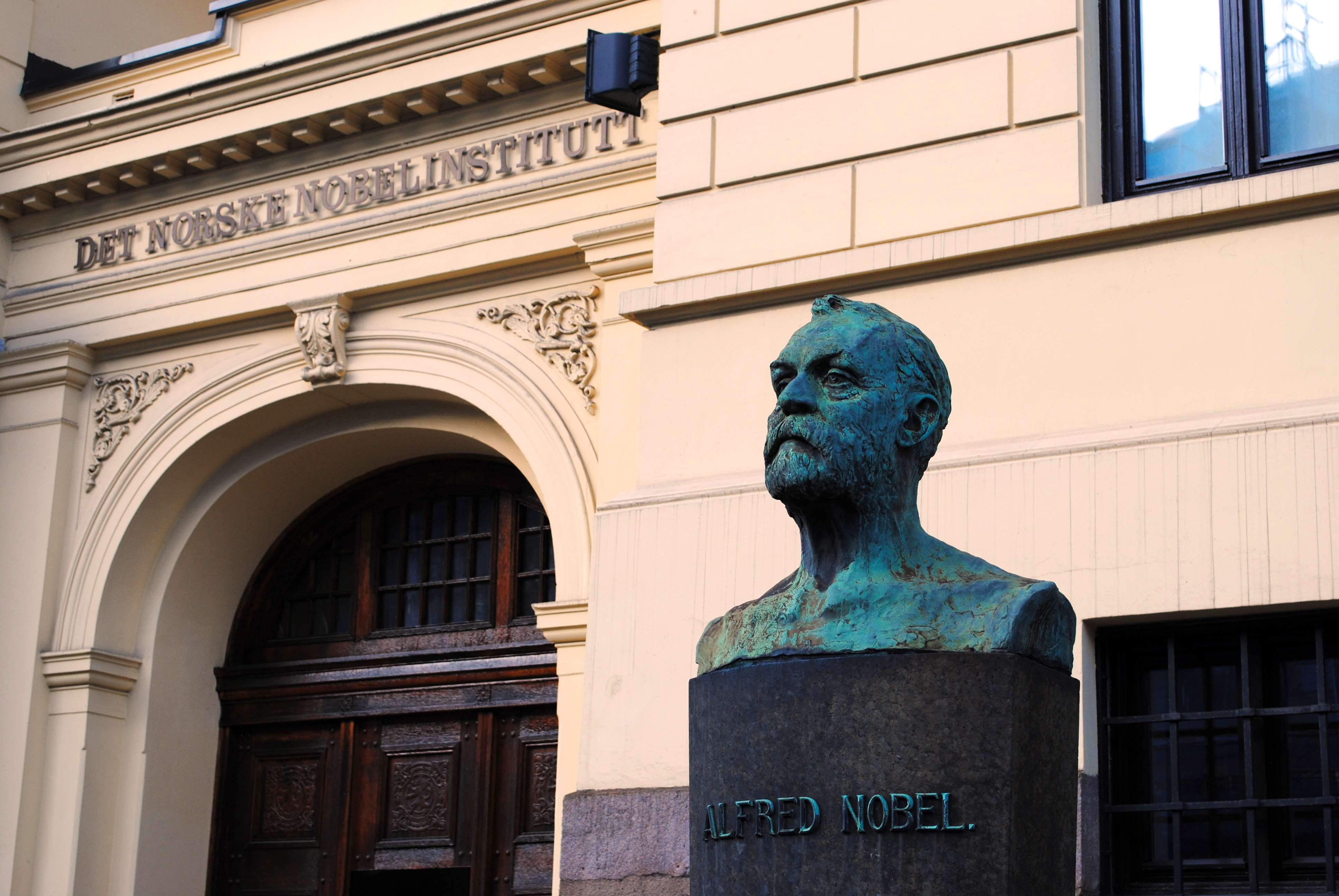 Bust of Alfred Nobel in front of the Nobel Institute in Oslo.